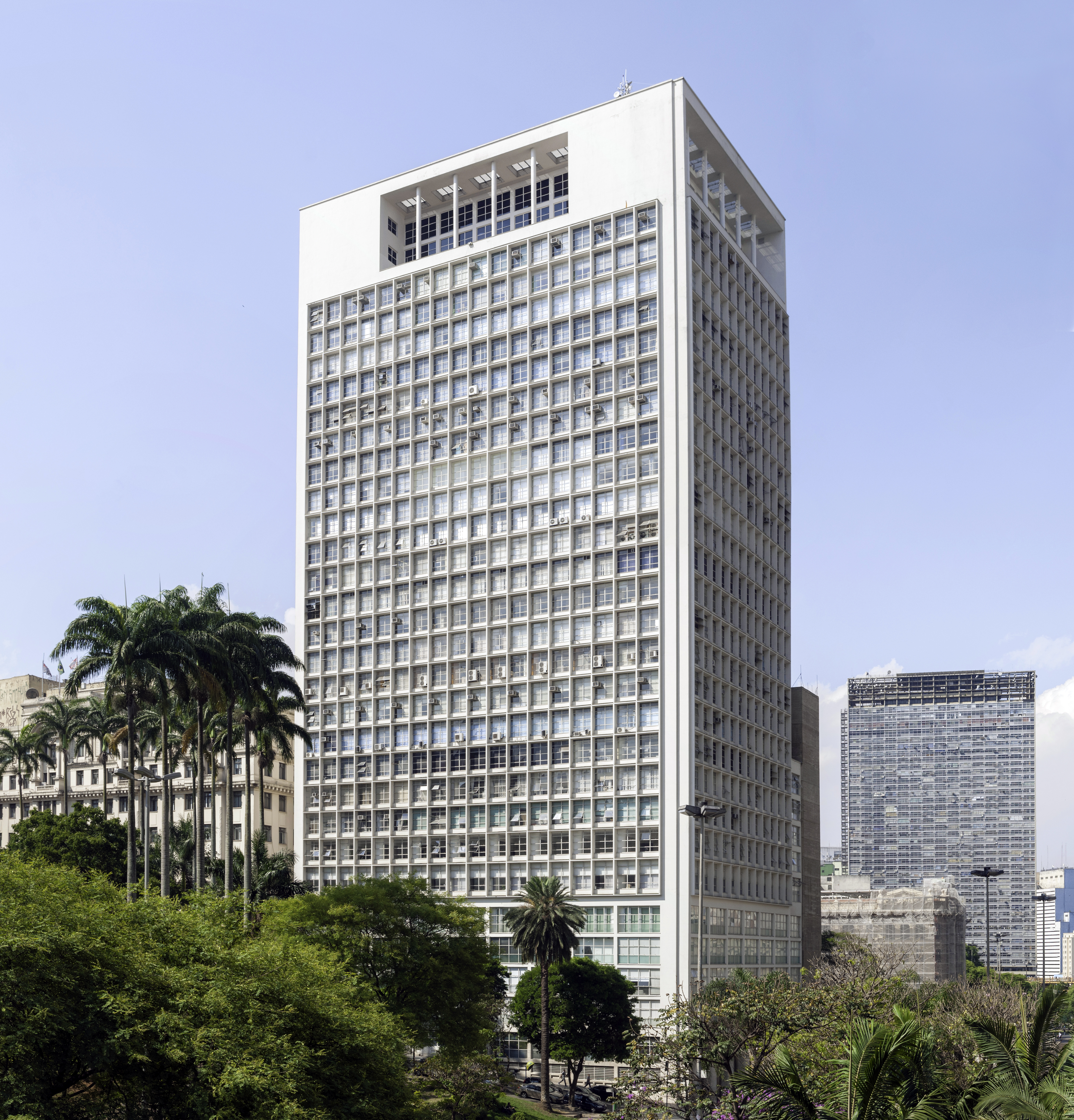 Conde de Prates Building (FELIPE MOSTARDA)